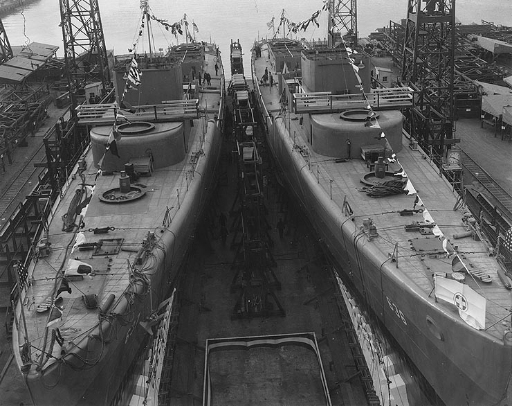 Philadelphia Navy Yard, 1942, USS Gherardi, at left, and USS Butler, ready for launching